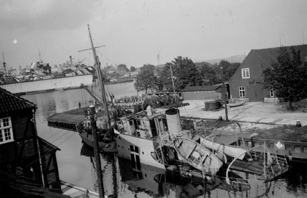 Minelayer Lougen sunken on 29 August 1943 (original photo in The Danish National Museum of Military History)